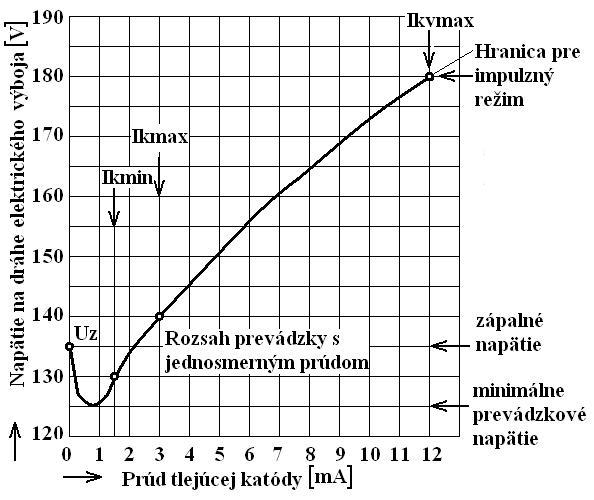 Digitron VA graf